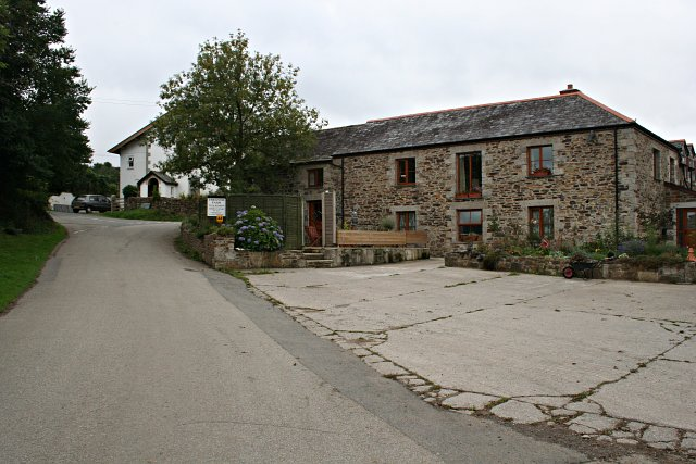 Treliver. Once farm buildings, these have now been converted into holiday accommodation.